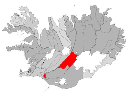 Based on Municipalities of Iceland.png.